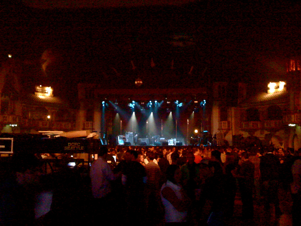 4/17/09 Aragon Ballroom in Chicago, IL.